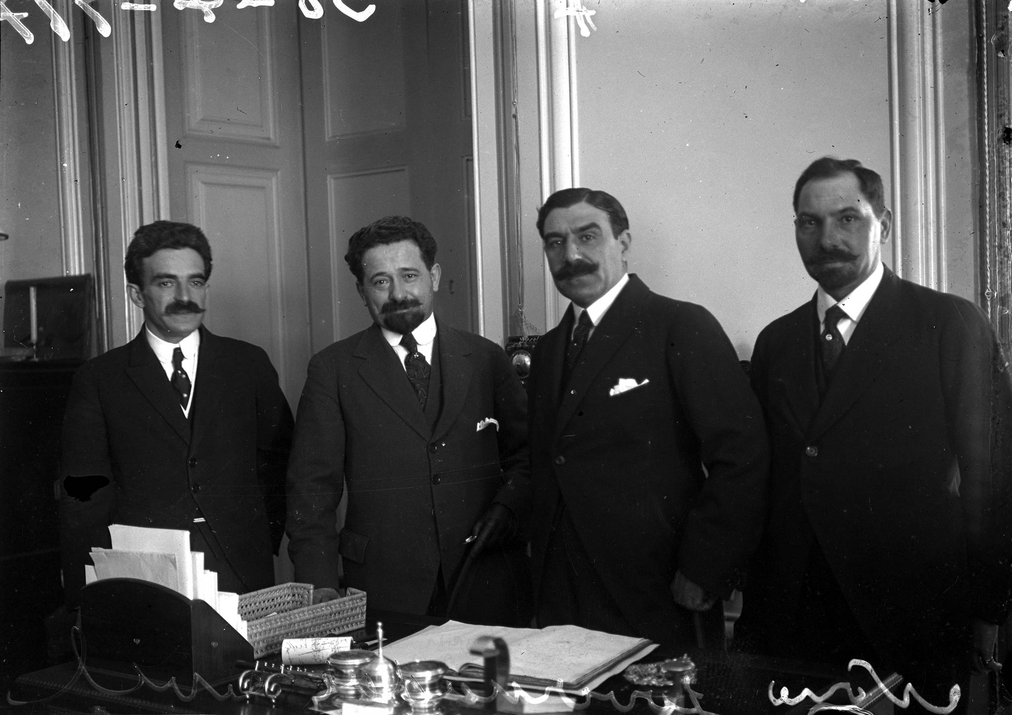 First government headed by Afonso Costa (second from the left), 1913.